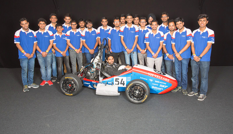 Team pose for a pictures 2015